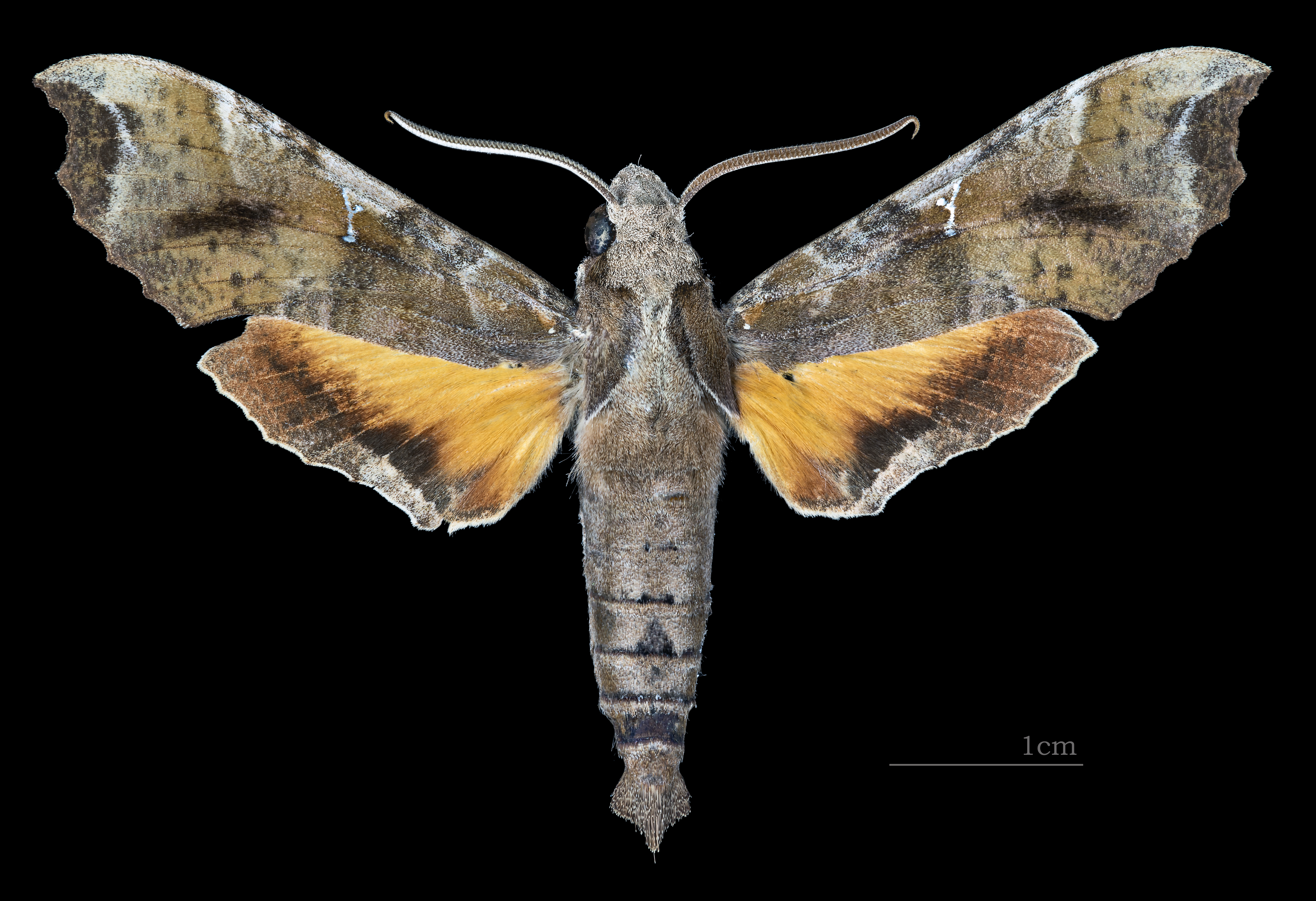 Callionima calliomenae - Dorsal side Collection of the Mathematician Laurent Schwartz